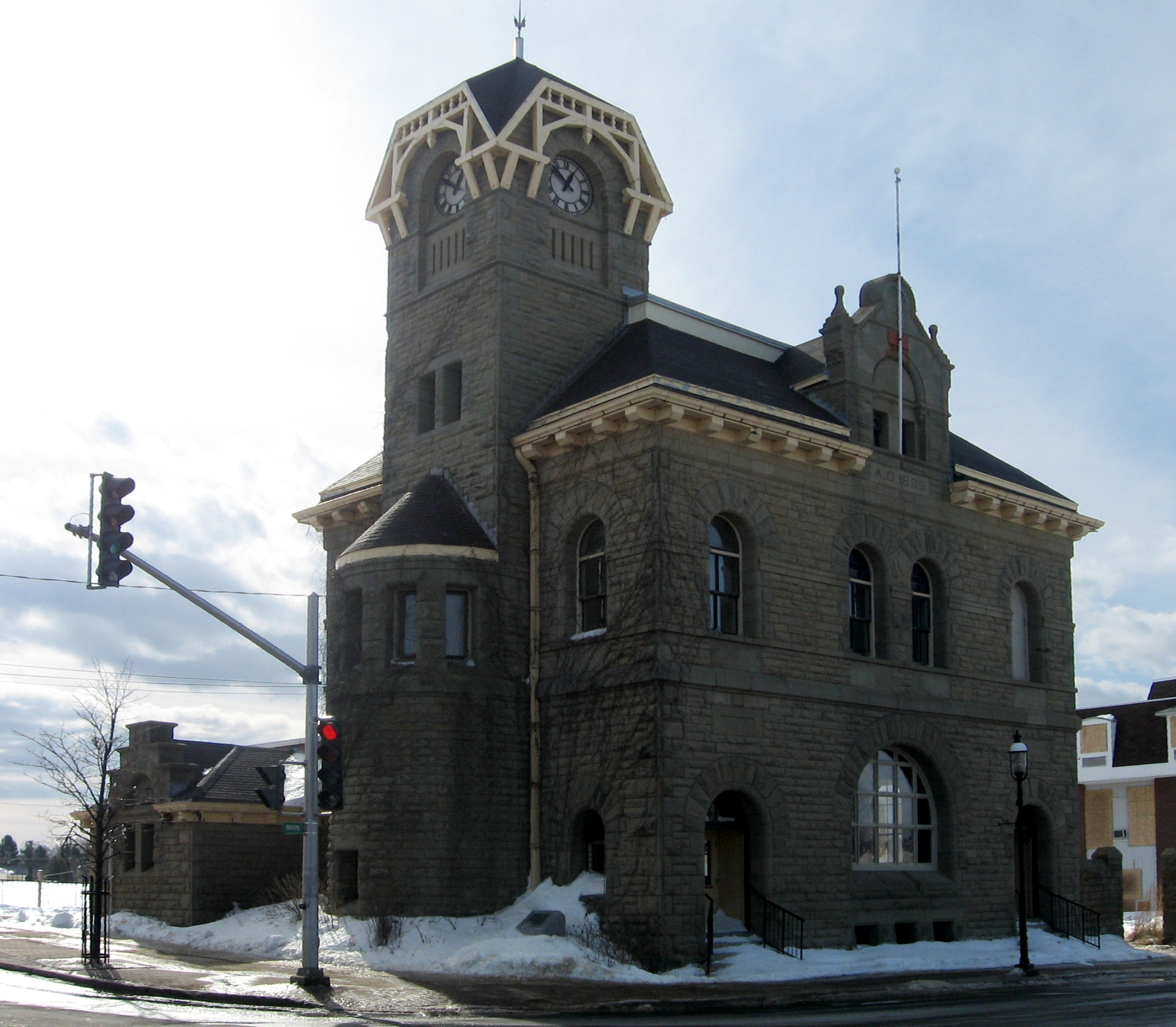 Modified version of Ancien_bureau_de_poste.jpg. Corrected for paralax, and improved brightness and contrast.